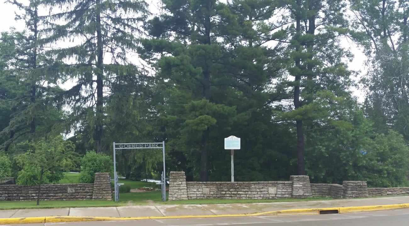 Goeres Park Gateway, Lodi, WI